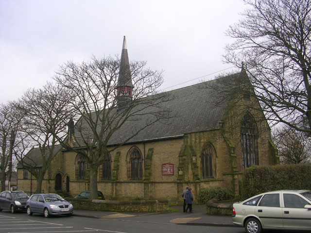 Parish church of St John the Evangelist, Meadowfield, Brandon, County Durham, seen from the west